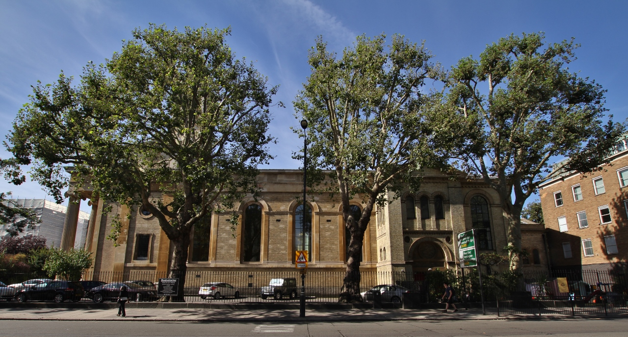 St Peter's parish church, Eaton Square, London SW1, seen from the southeast from Hobart Place